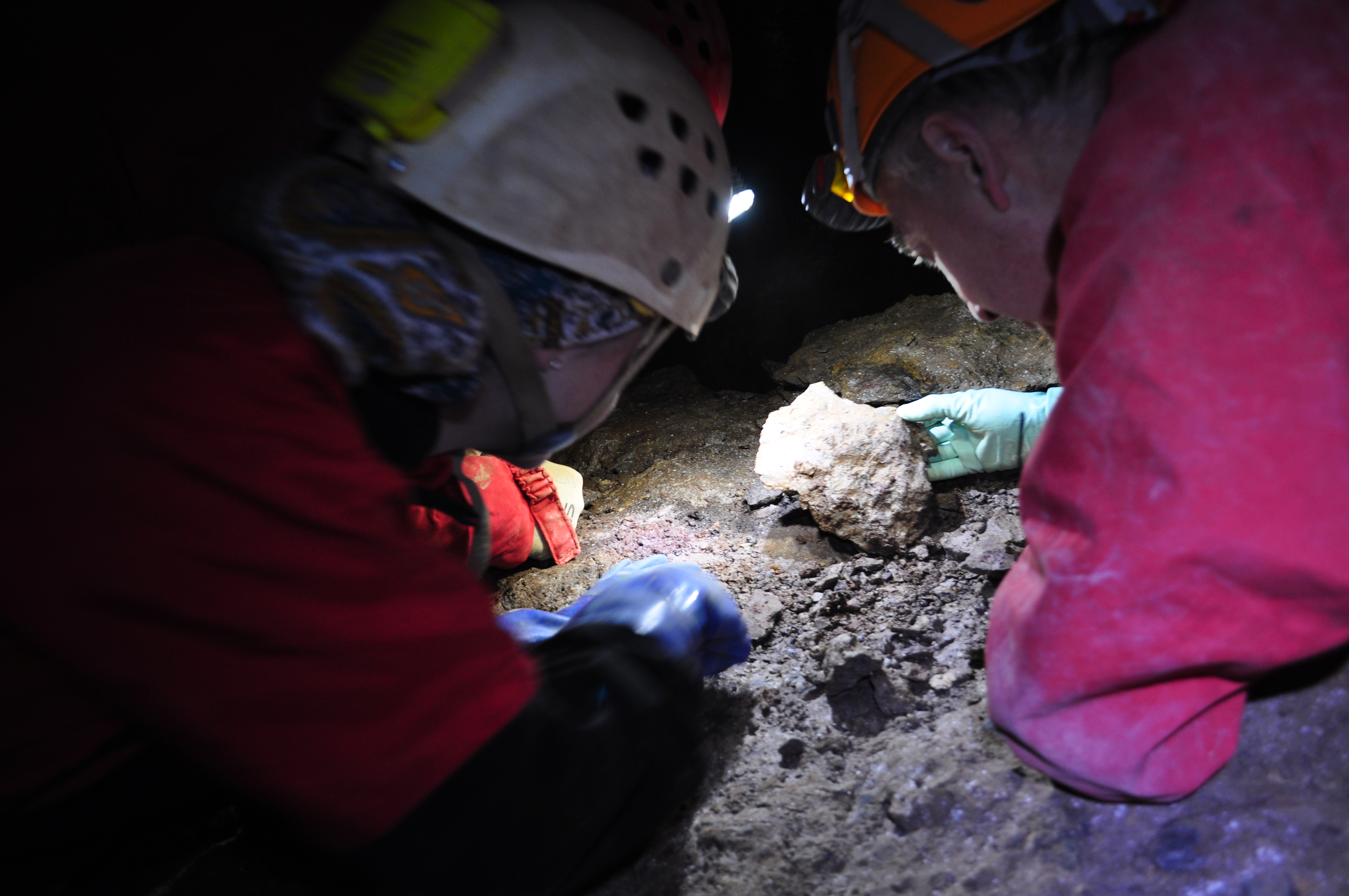 Biospeleologists (Carlos E. Prieto) collecting samples at Urallaga cave system (Galdames, Bizkaia, Basque Country)